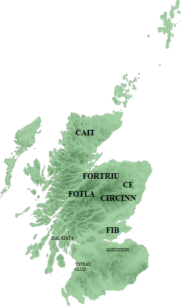 Map of the Pictish kingdoms in bold, and of other kingdoms of Old Scotland.